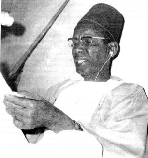 Thierno Abdourahmane Bah during a sermon before the Friday prayers at the Mosque of Karamoko Alpha Mo Labé in 1989